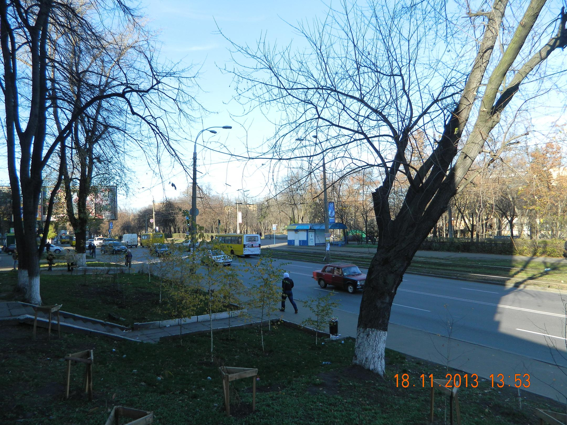 Kyiv, Kyrylivska street near of the Park of the Kurenivka